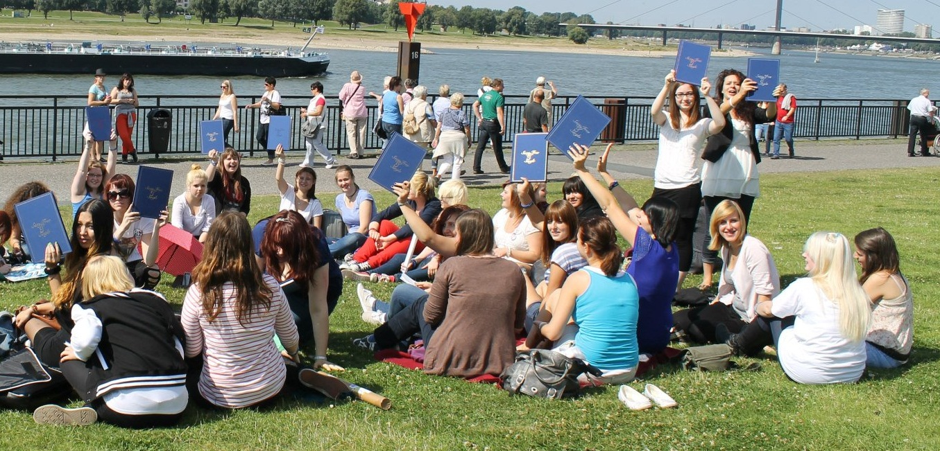 Super Juinor fans holding the 6th studio album Sexy, Free & Single in Dusseldorf, Germany